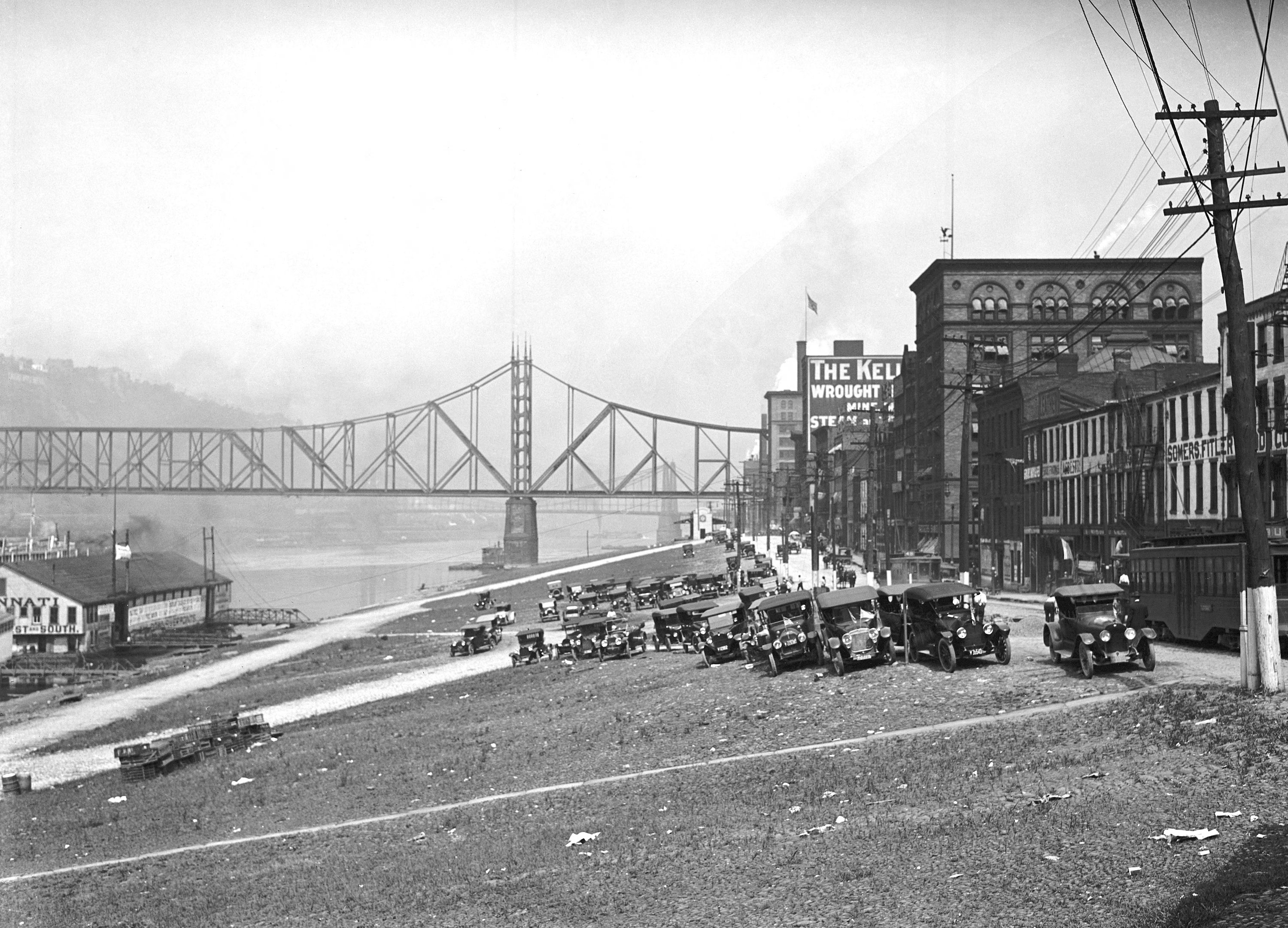 A view of cars parked on the Monongahela Wharf with a view of the Wabash Bridge. Date July 19, 1917 Title Monongahela Wharf and Wabash Bridge Notes address Monongahela Wharf Subjects Downtown (Pittsburgh, Pa.) Wharves--Pennsylvania--Pittsburgh Monongahela Wharf (Pittsburgh, Pa.) Bridges--Pennsylvania--Pittsburgh Rivers--Pennsylvania--Pittsburgh Monongahela River (W. Va. And Pa.) Related names creator Pittsburgh City Photographer depositor University of Pittsburgh